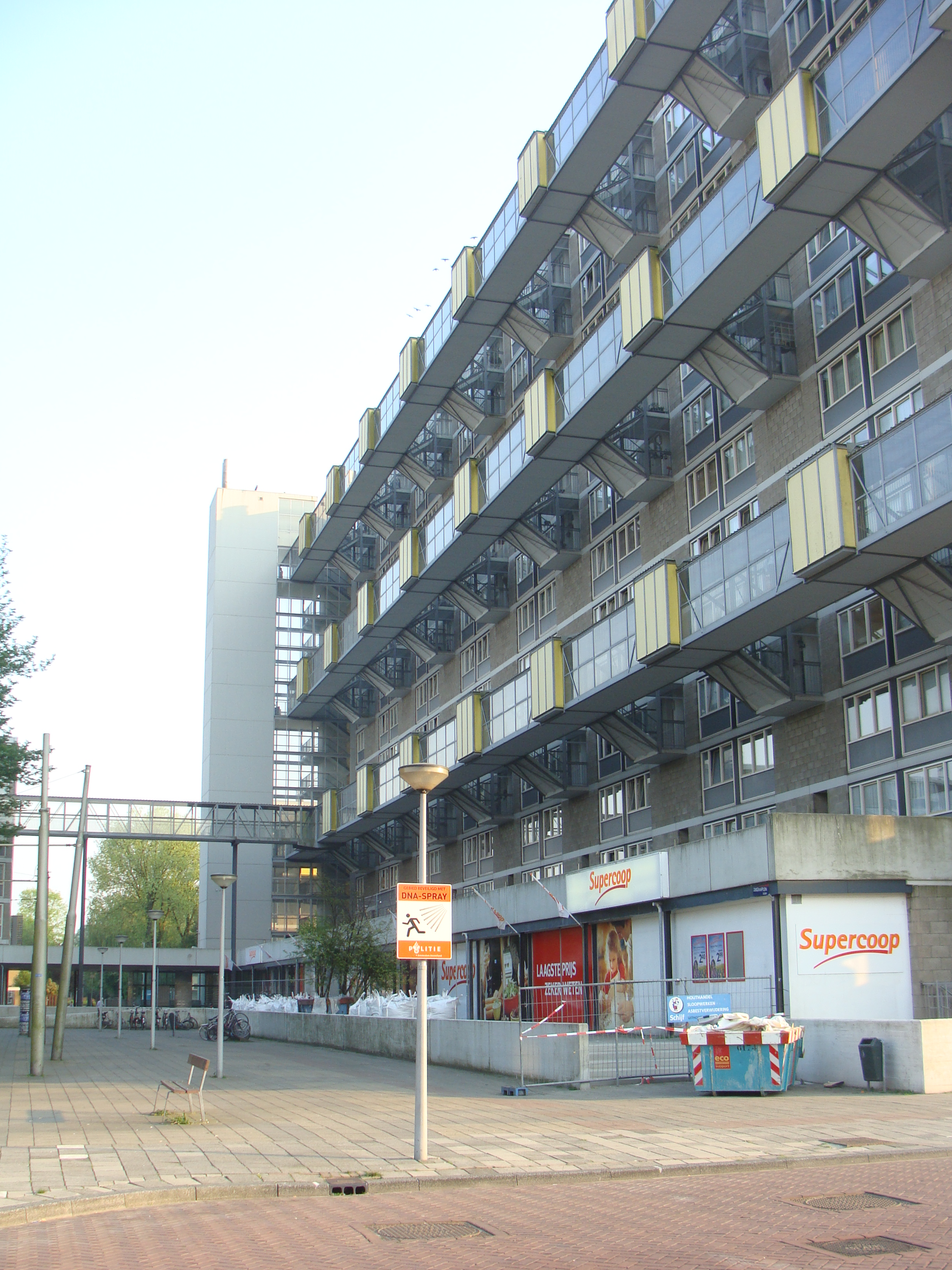 The hangbrugmaisonnettes ('suspension bridge maisonettes') of Dutch architect J.P. Kloos at the Dijkgraafplein, Amsterdam-Osdorp, The Netherlands.